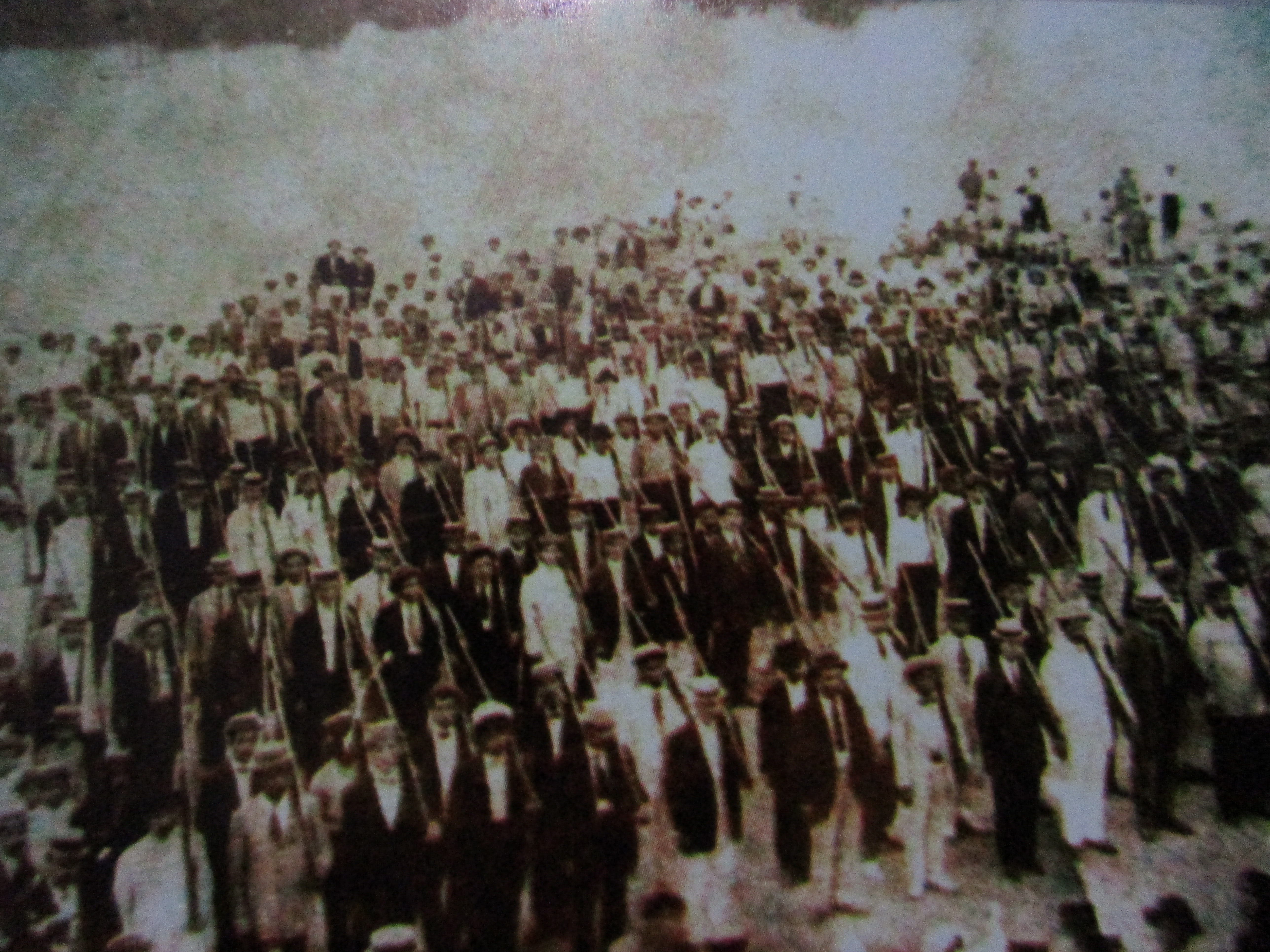 Civil and military insurrection of Loreto and proclamation of the State of Loreto of the Peruvian Republic of 1896